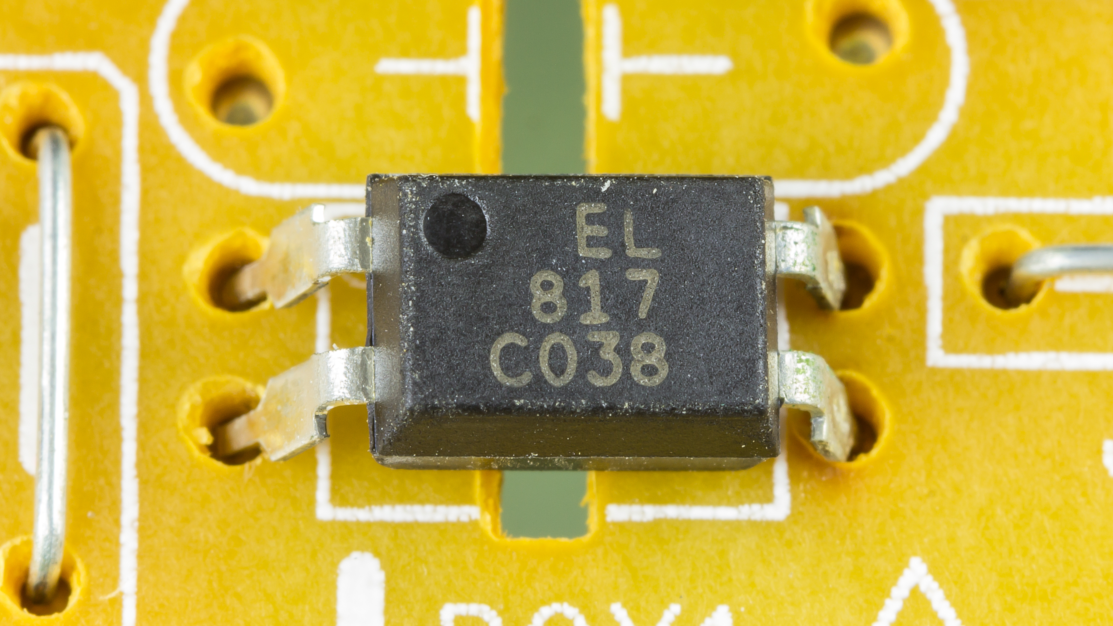 Philips BDP3280/12 - Everlight EL817 on power board - Phototransistor Photocoupler